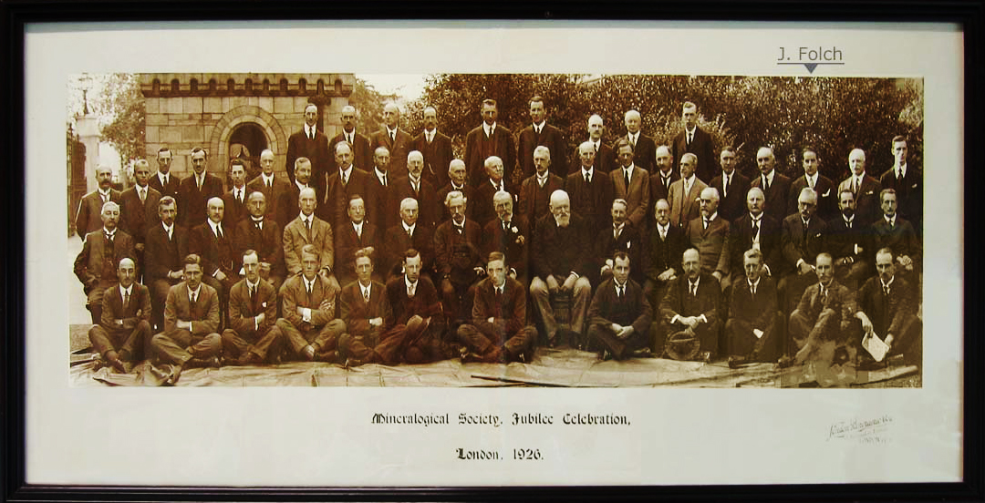 Russell Society